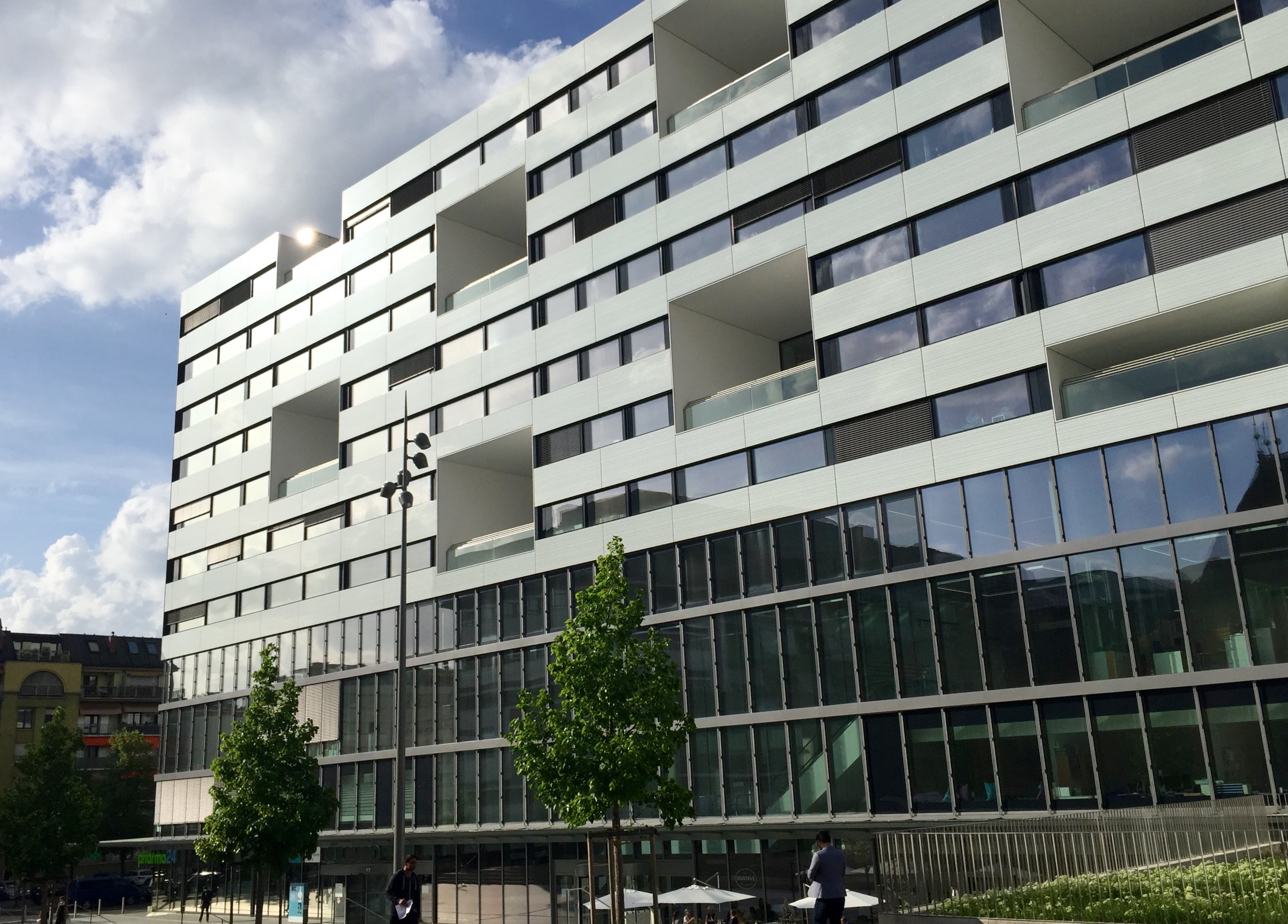 Gustave Julliard building at Geneva University Hospitals